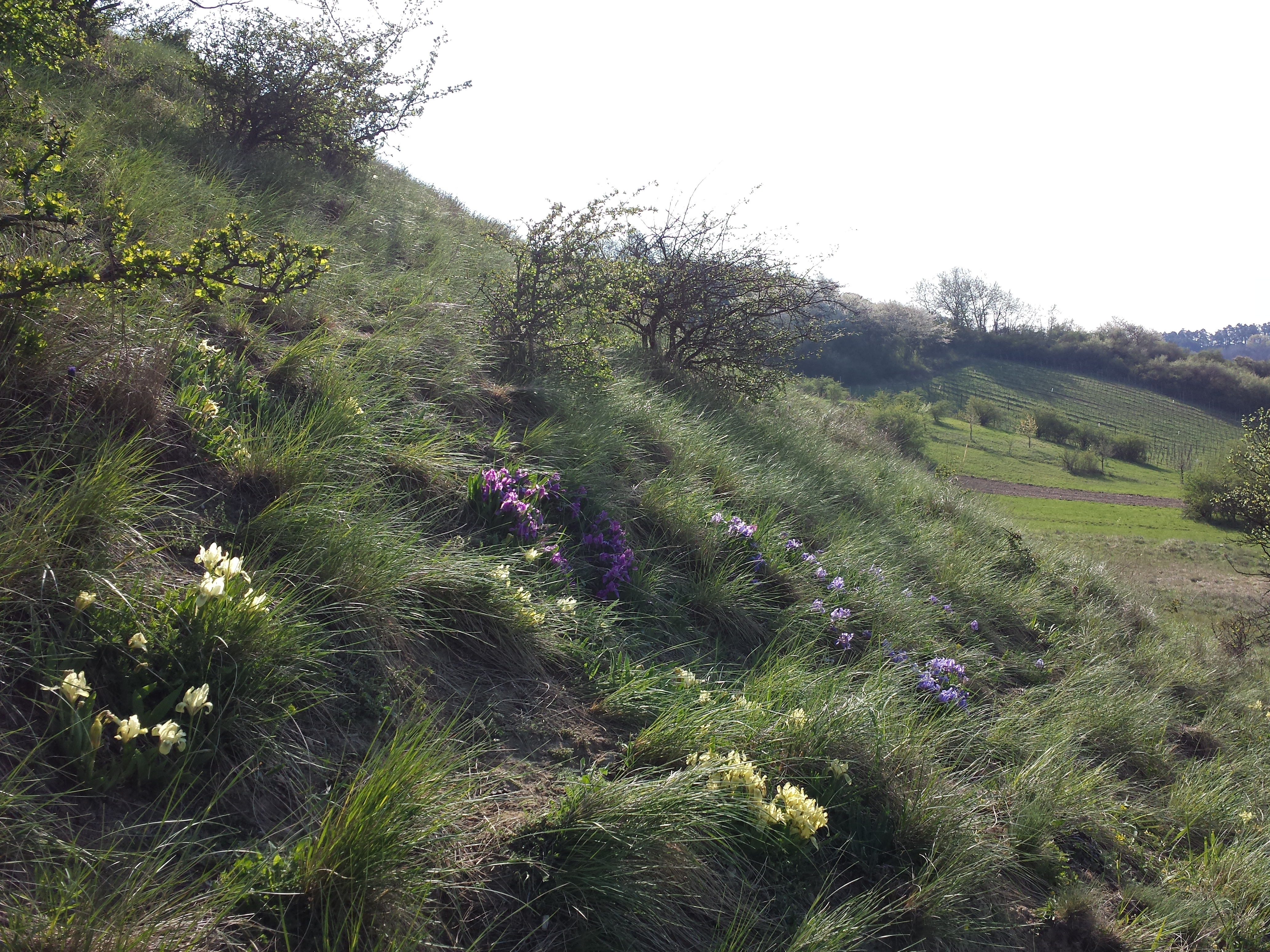 Habitat Taxonym: Iris pumila ss Fischer et al. EfÖLS 2008 ISBN 978-3-85474-187-9 Location: Haulesbergen, district Mistelbach, Lower Austria - ca. 200 m a.s.l. Habitat: dry grassland